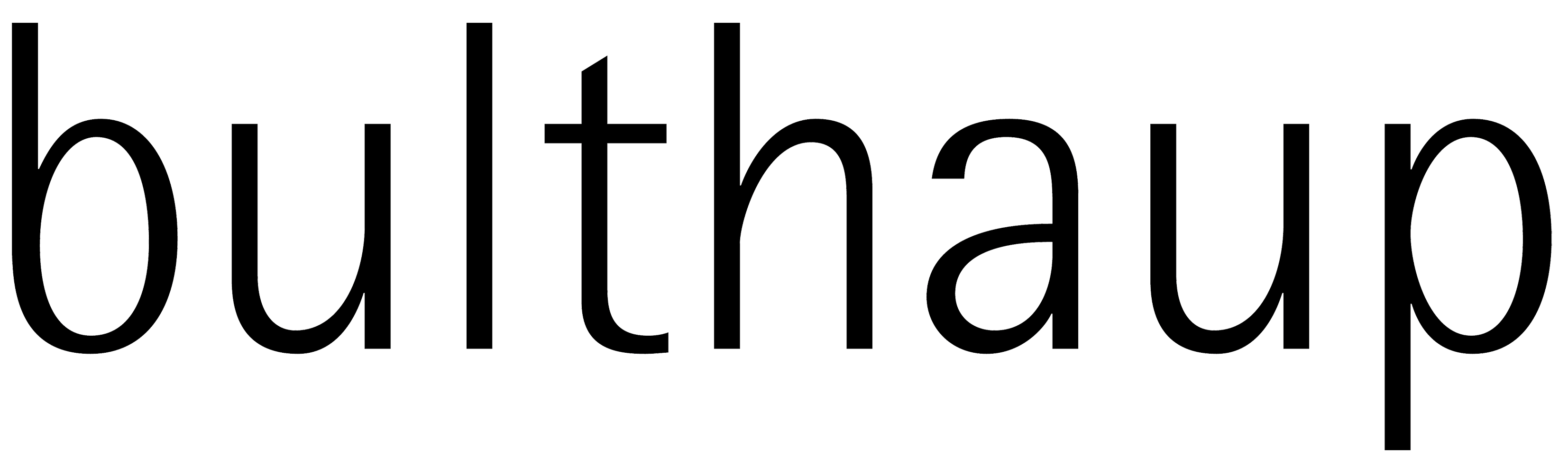 Brand logo of German kitchen and furniture company bulthaup, transparent background